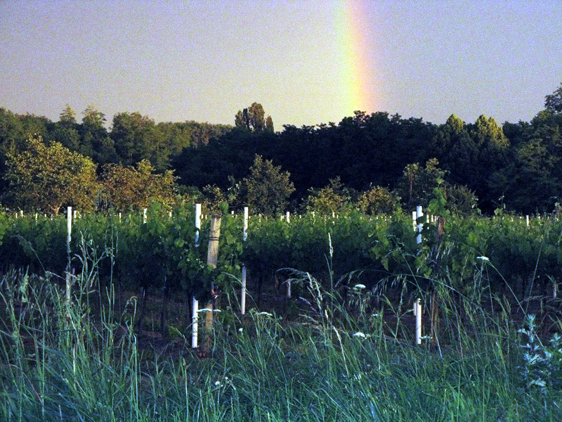 Storm and Rainbow on the vines